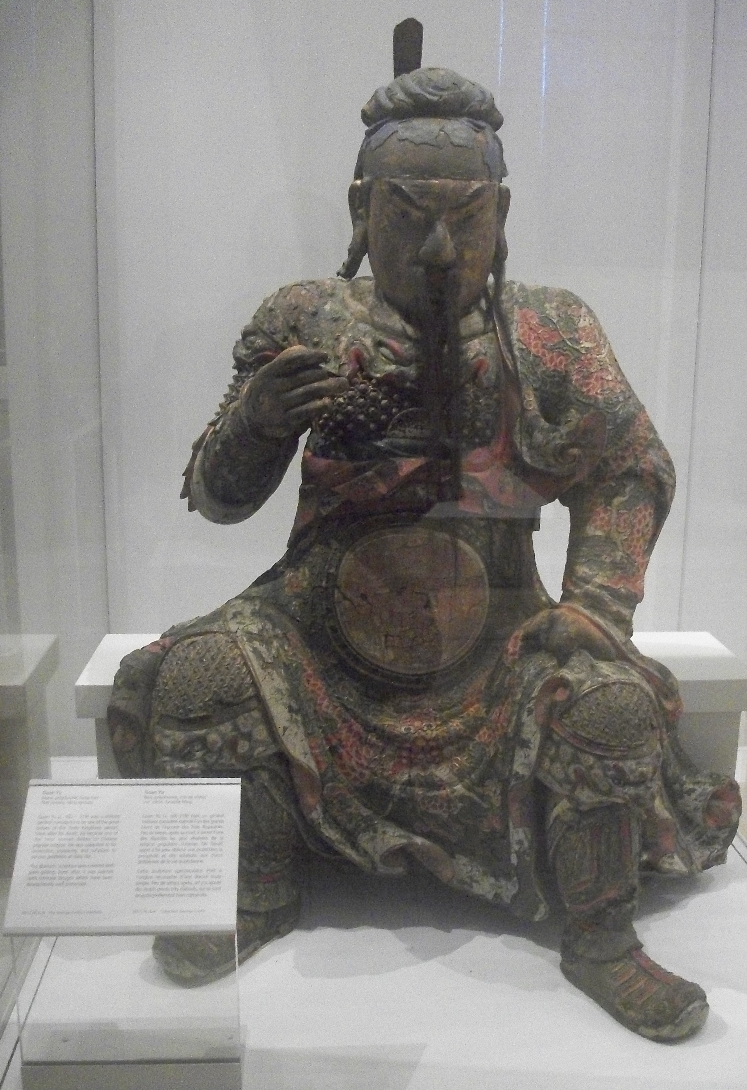 16th century CE statue of Chinese general Guan Yu at the Royal Ontario Museum